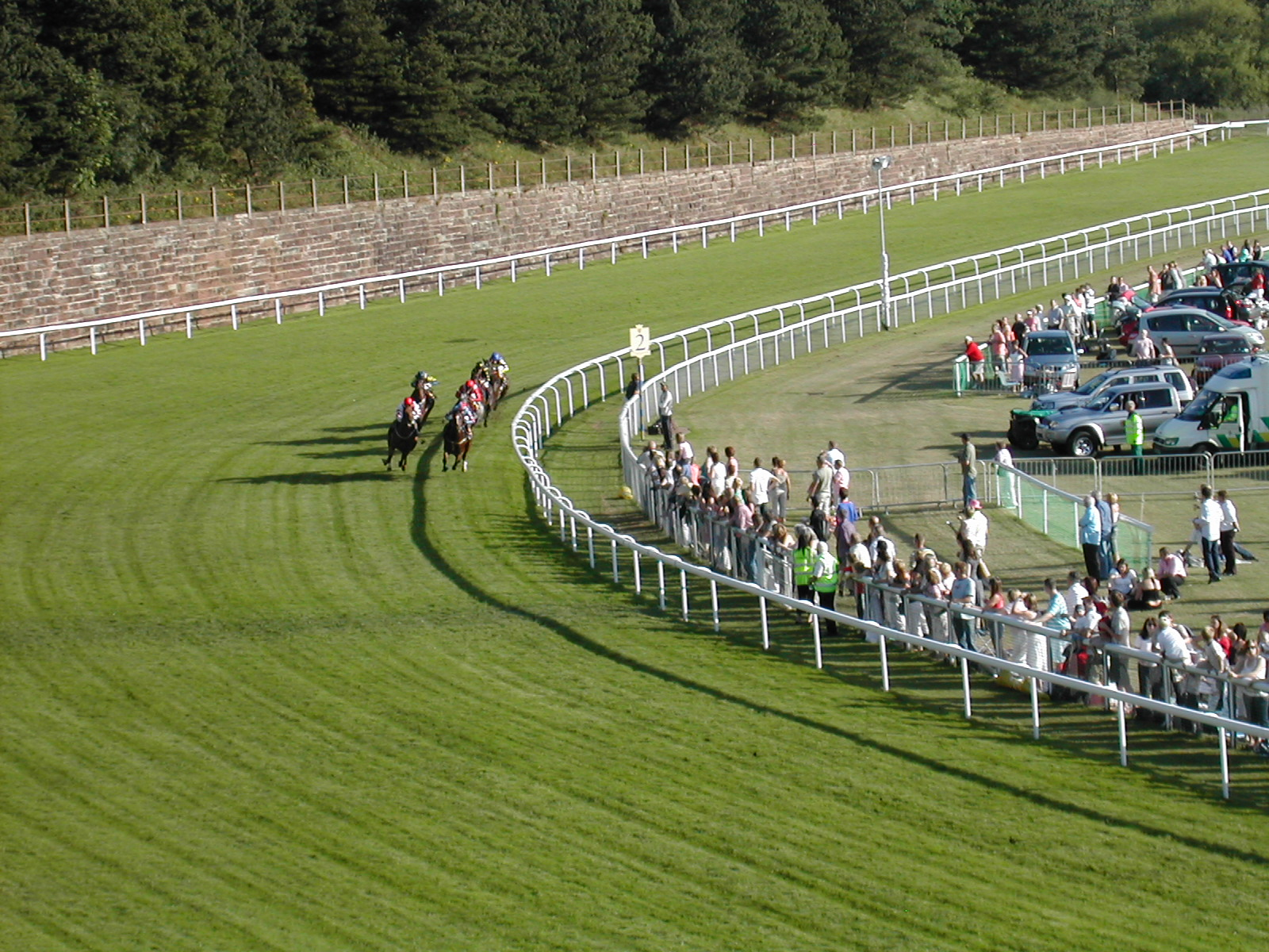 It's a picture of a racecourse in Chester.